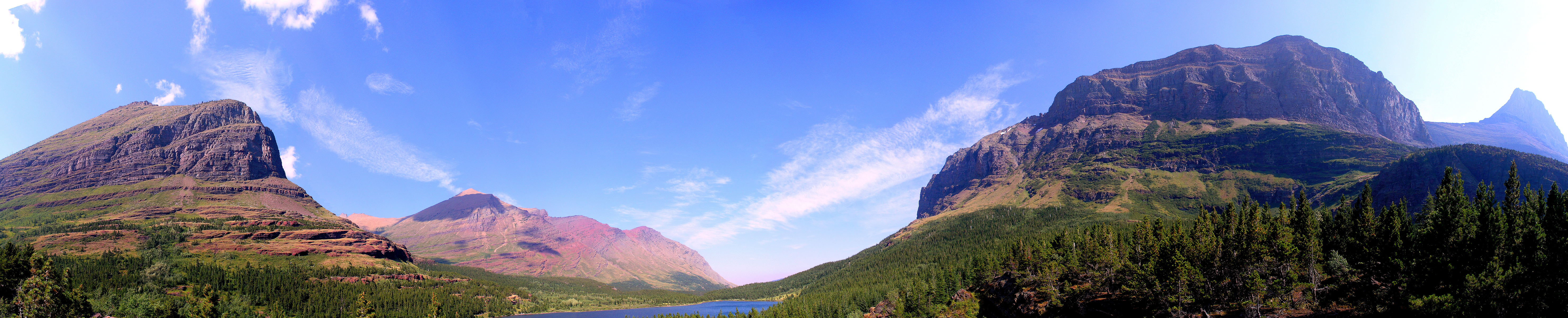 Panorama from the Red Rock Falls Trail near Many Glacier in the Glacier National Park division of the Waterton-Glacier International Peace Park in Montana (USA)